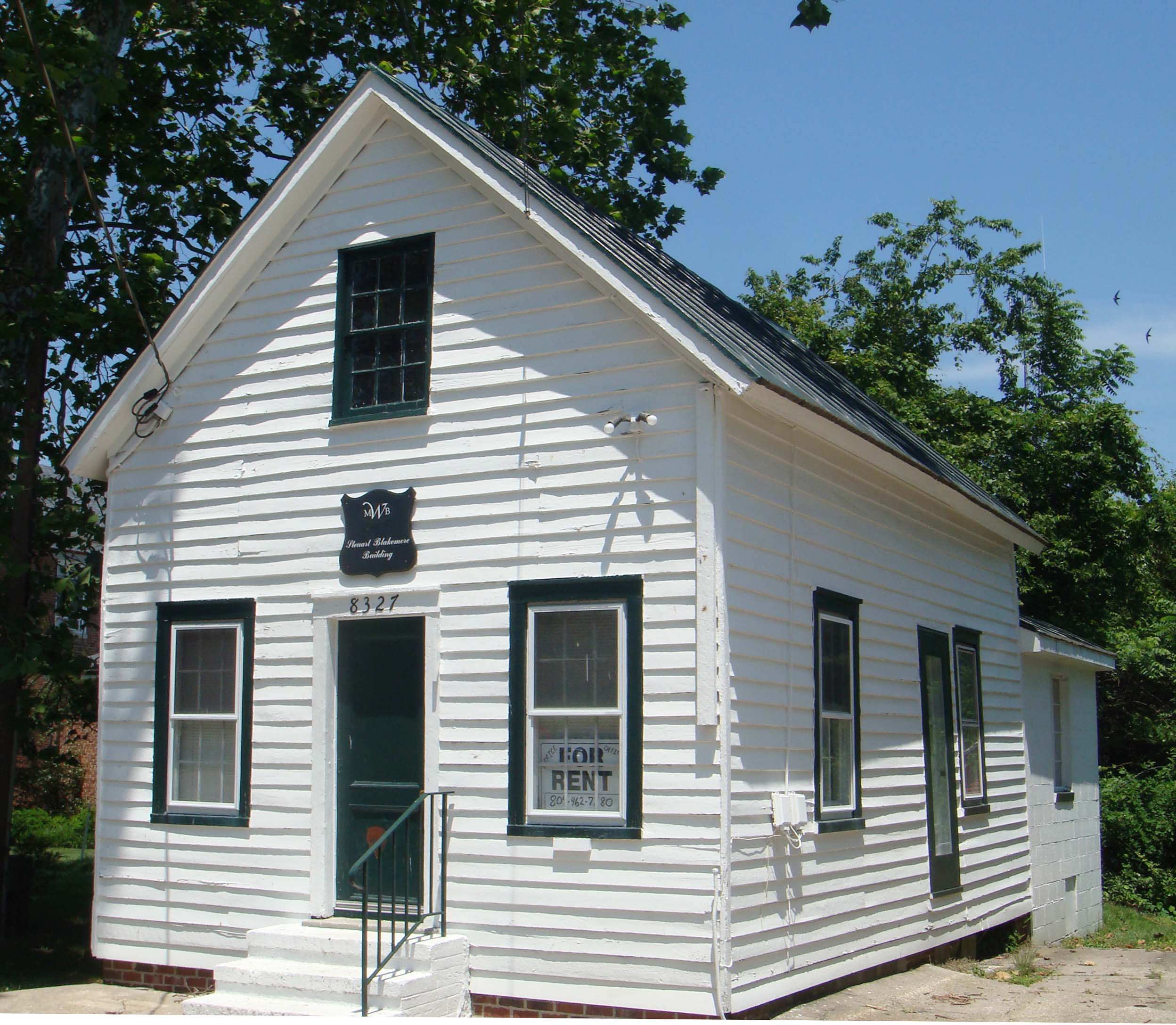 a view of the Steuart-Blakemore Building, part of the Mary Ball Washington Museum in Lancaster, Va